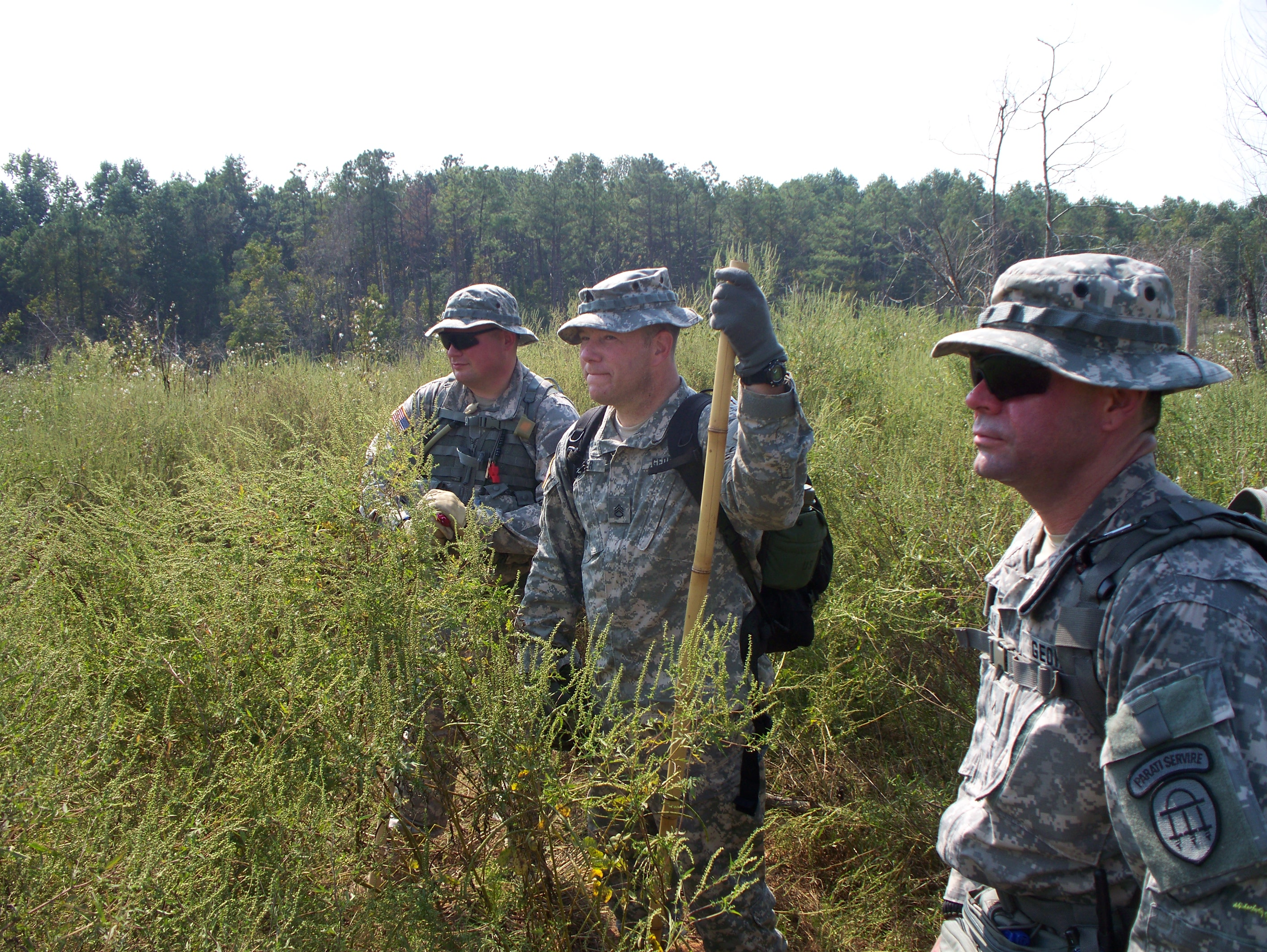 SDF volunteers complete search and rescue training. Photo by SDF Cpl. Ted Burzynski Full story